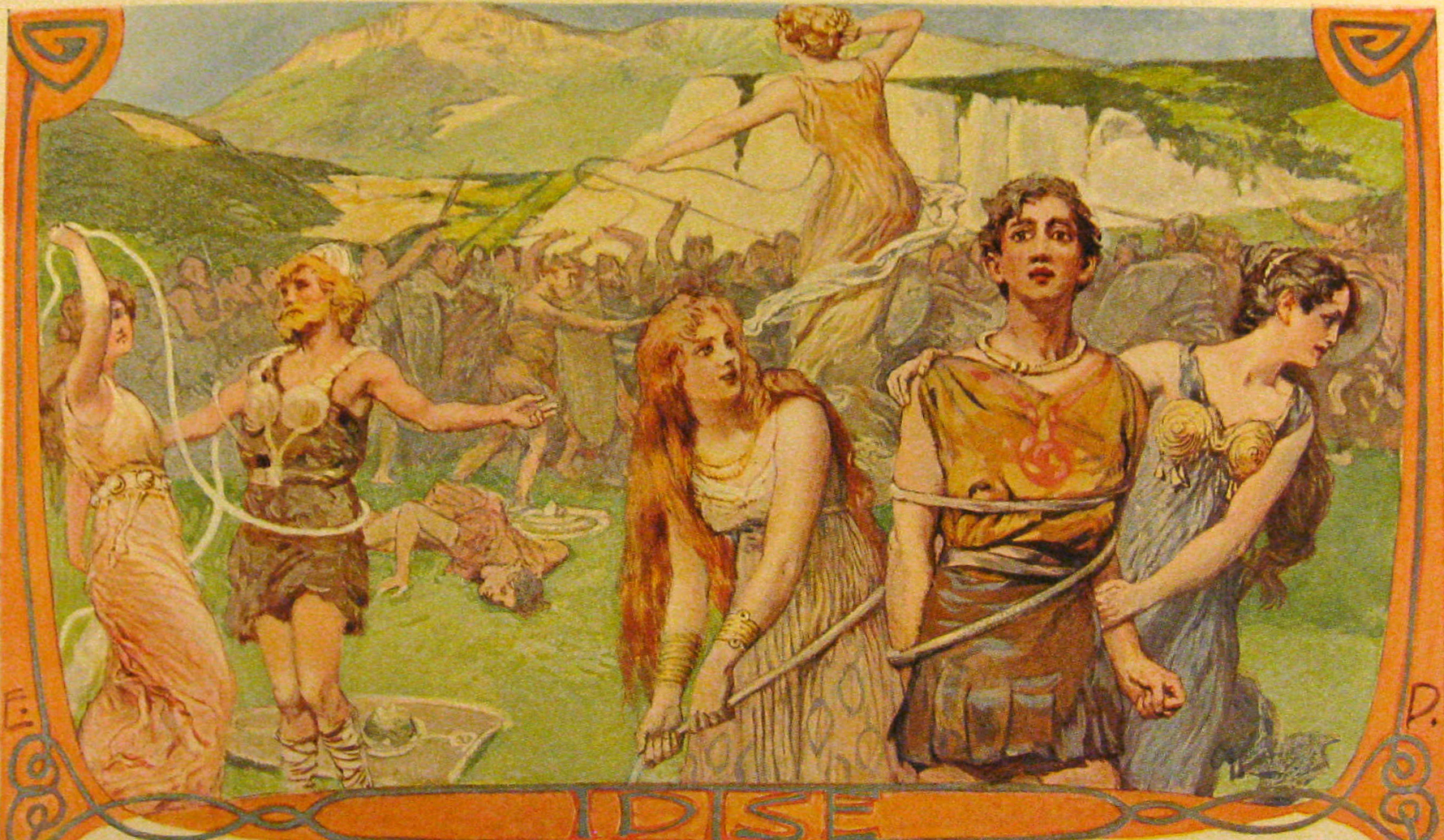 "Idisen" impede an army while binding warriors and freeing others as described in the "Liberation of Prisoners" Merseburg Incantation.